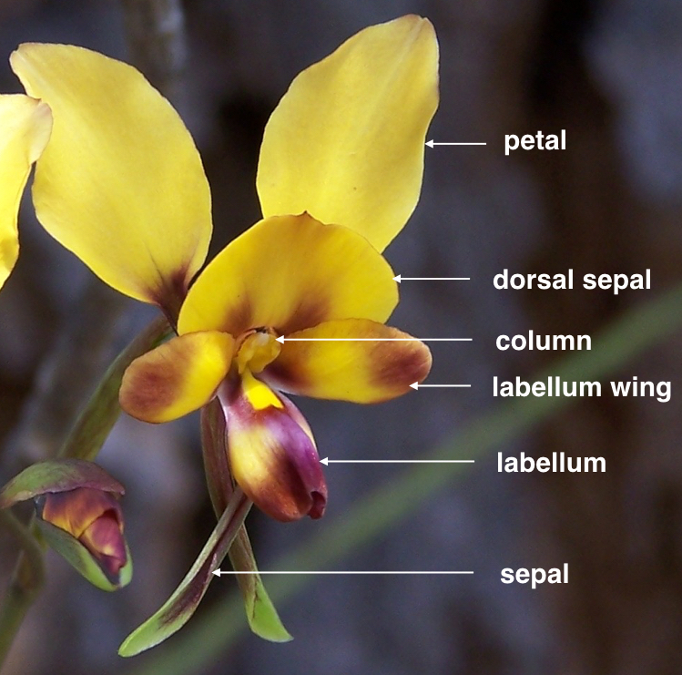 Labelled image of Diuris carinata